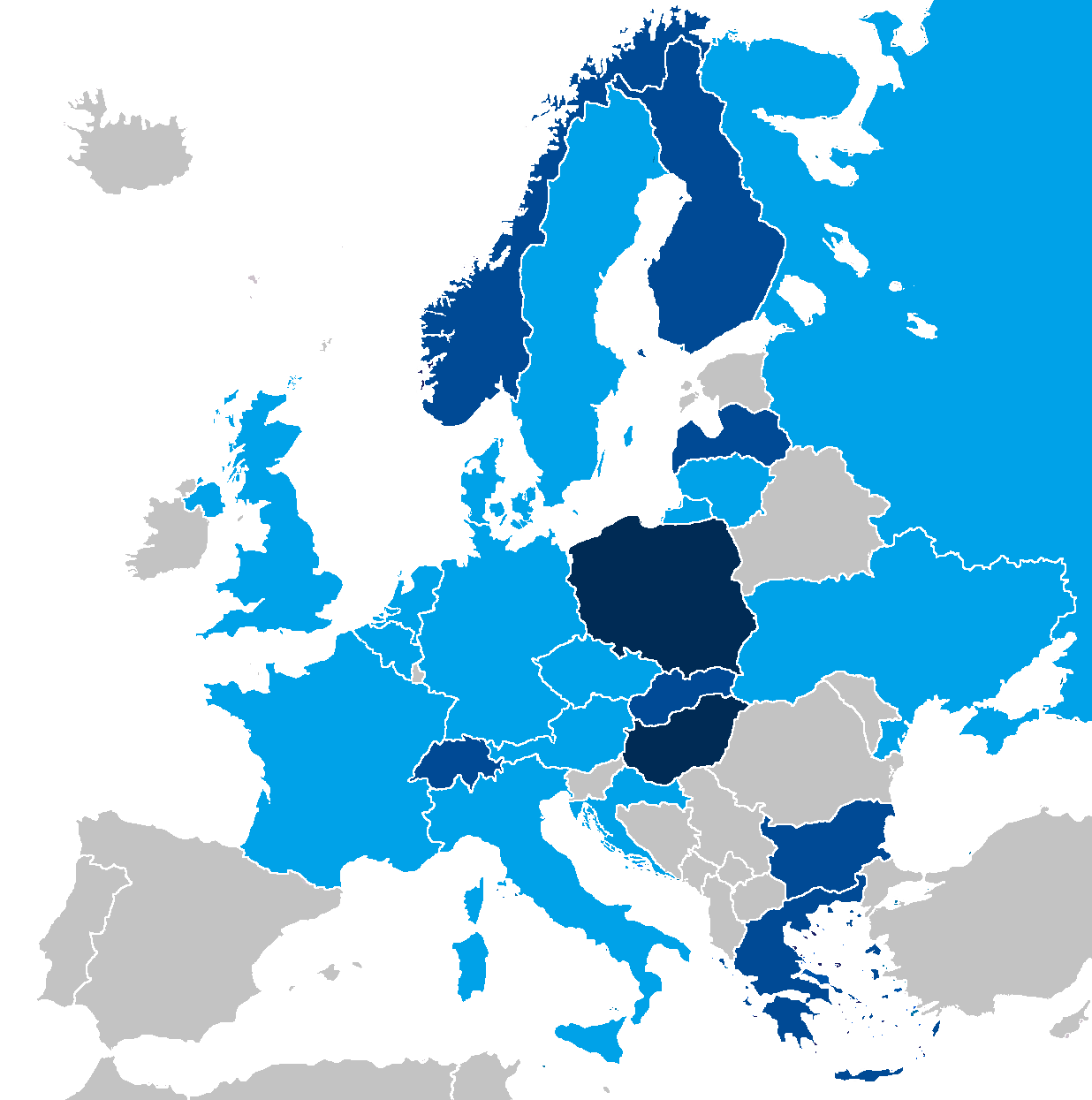 The sources for parties' ideologies are taken from parties-and-elections.eu Right-wing populists in government: Finland: Finns Pary Greece: Independent Greeks Norway: Progress Party Switzerland: Swiss People's Party Right-wing populists in the Parliament Austria: Freedom Party of Austria Belgium: Vlaams Belang Belgium: People's Party Bulgaria: Bulgaria Without Censorship Czech Republic: Dawn - National Coalition Denmark: Danish People's Party France: National Front Germany: Alternative für Deutschland Greece: Golden Dawn Italy: Lega Nord Netherlands: Freedom Party Russia: Liberal Democratic Party of Russia Poland: Kukiz'15 Sweden: Sweden Democrats Switzerland: League of Ticinesians Switzerland: Geneva Citizens' Movement Ukraine: Radical Party of Oleh Lyashko Right-wing populists in a regional Parliament (ruling parties are in bold fonts) Northern Ireland: Democratic Unionist Party Burgenland: Freedom Party of Austria Kärnten: Freedom Party of Austria Niederösterreich: Freedom Party of Austria Oberösterreich: Freedom Party of Austria Land Salzburg: Freedom Party of Austria Steiermark: Freedom Party of Austria Tirol (Bundesland): Freedom Party of Austria Vorarlberg: Freedom Party of Austria Wien: Freedom Party of Austria Brussels: Vlaams Belang Crimea: Liberal-Democratic Party of Russia Flanders: Vlaams Belang South Tyrol: League North Wales: United Kingdom Independence Party Flanders: People's Party